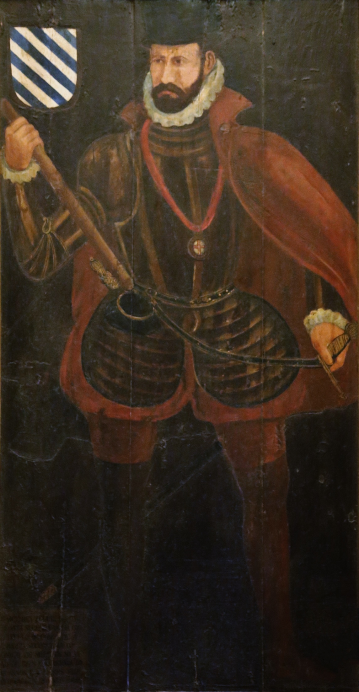 Luís de Ataíde, Marquis of Santarém (1517-1580), Viceroy of Portuguese India